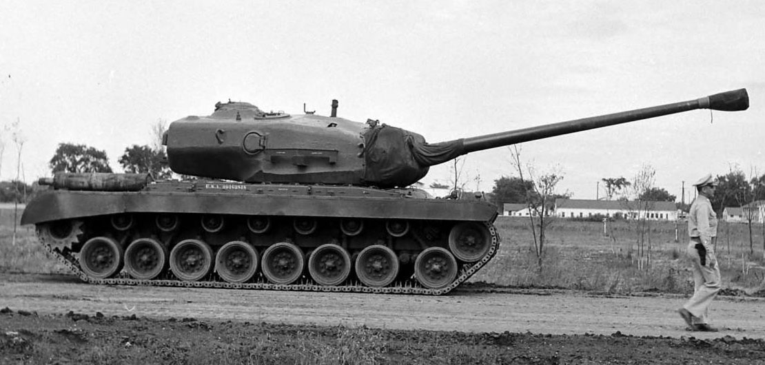 T34 Heavy tank in Aberdeen Proving Ground 1947